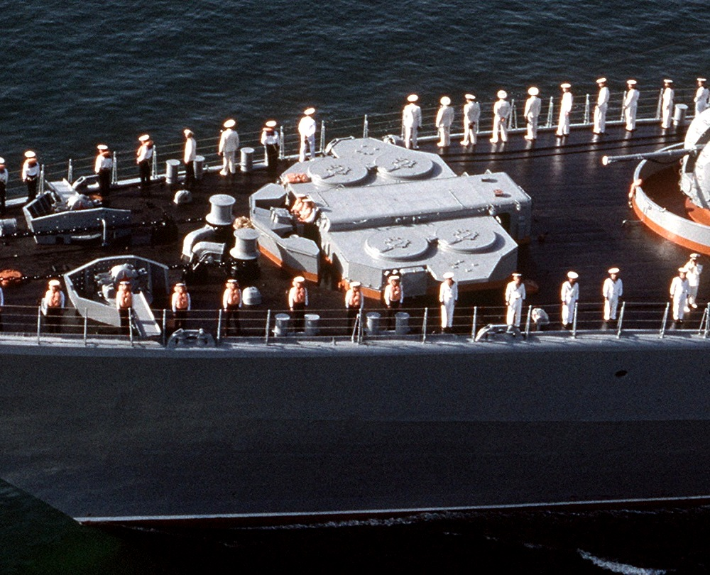 SA-N-9 launchers (russian designation: 3K95 Kinzhal) on the Udaloy class destroyer Admiral Vinogradov in 1990.